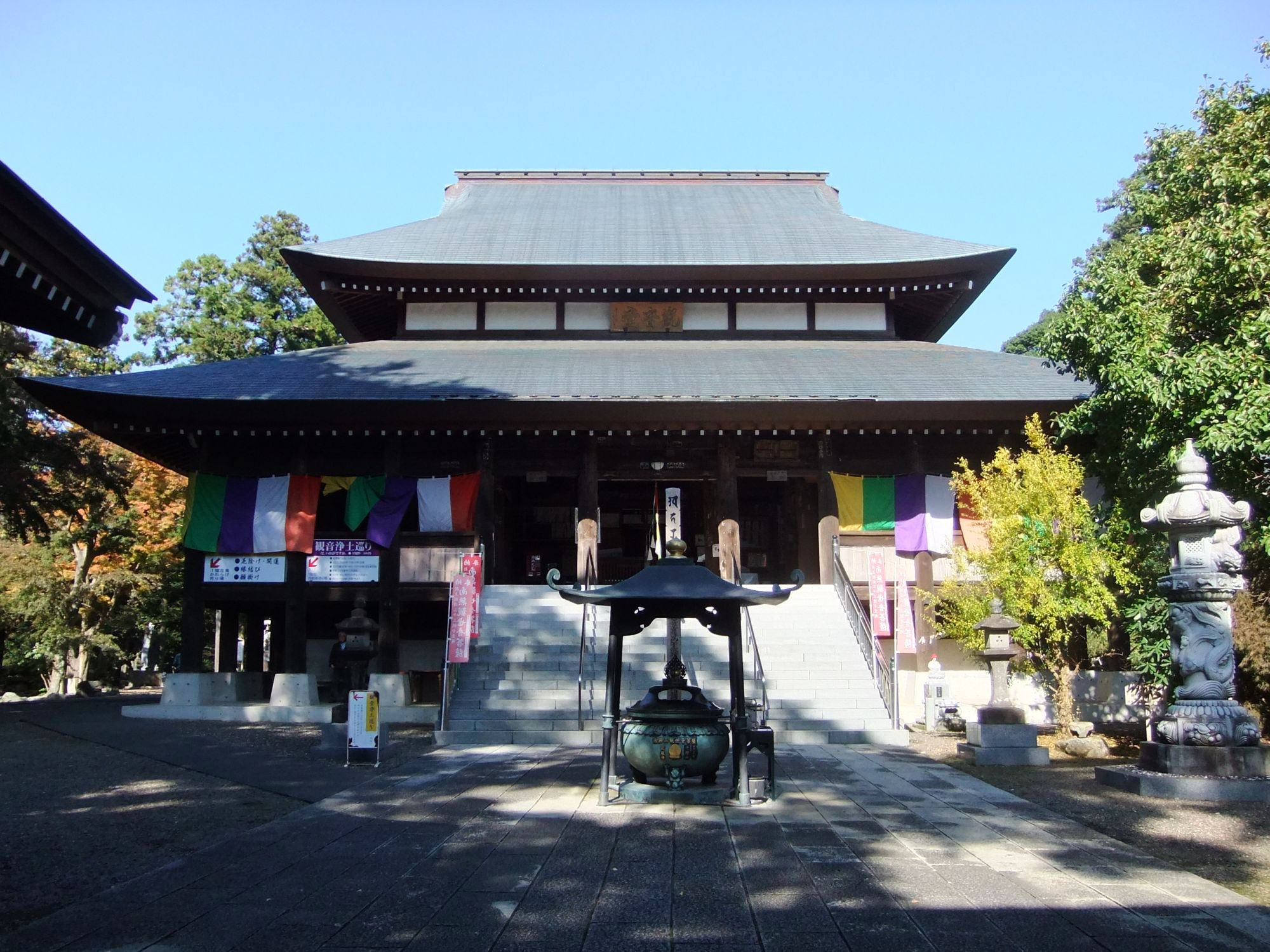 Kannon-dō (Main hall) of Kōzō-ji temple in Kisarazu, Chiba